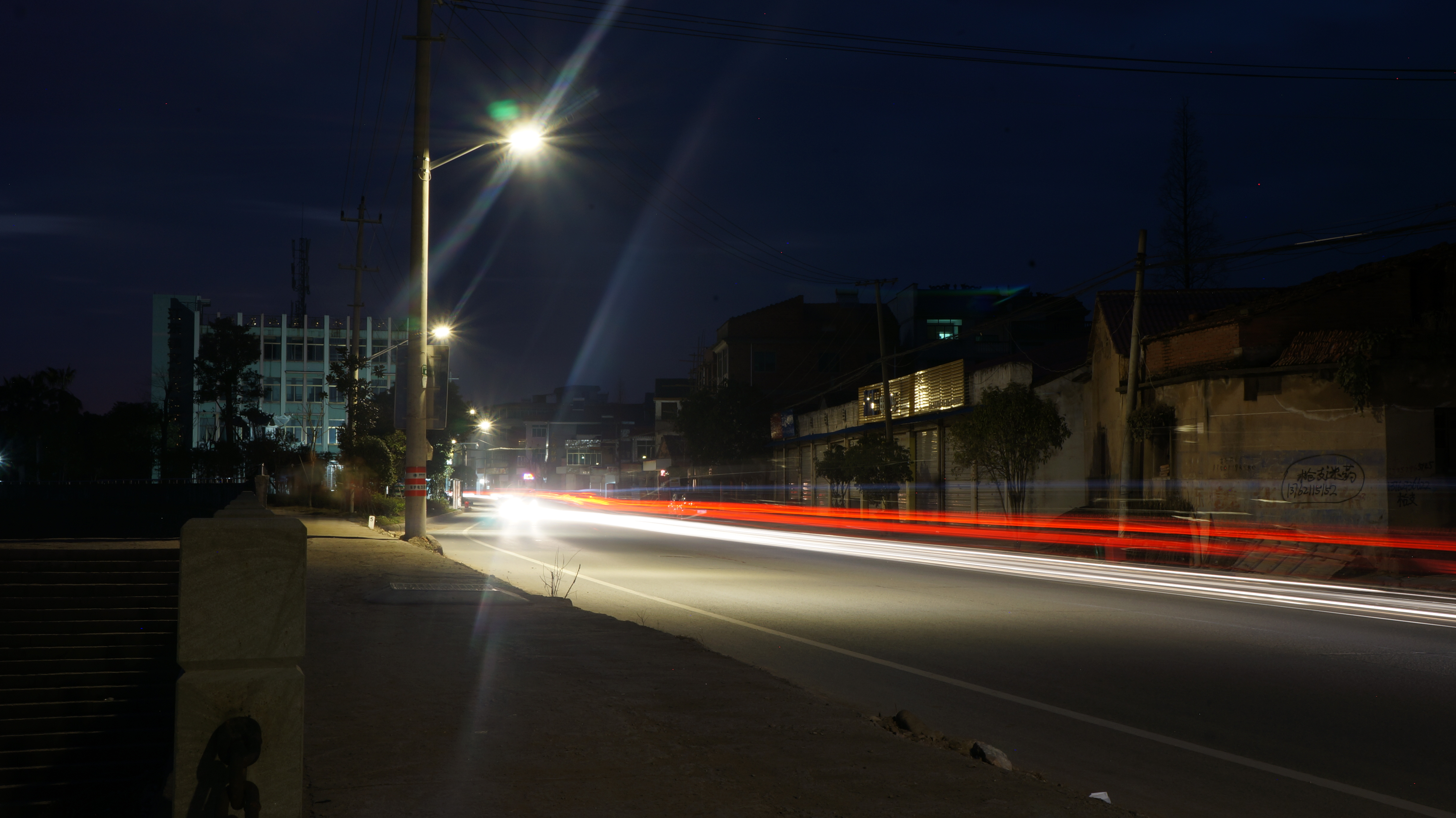 201602 Jiangdong Town